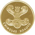 Coin of Ukraine